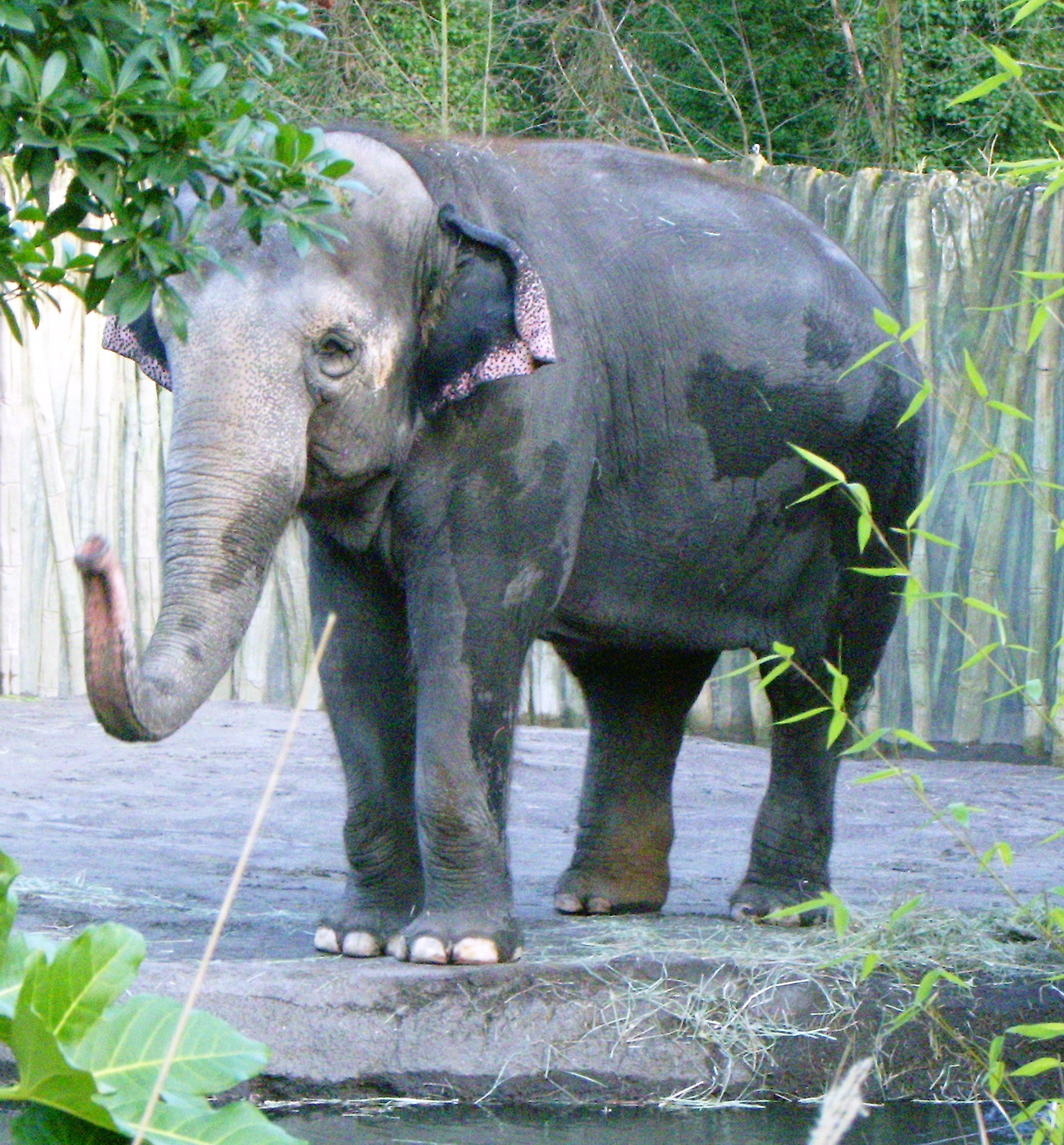 The Oregon Zoo has the most successful elephant breeding program in the world. This elephant pen has a variety of amenities for the benefit of the animals.